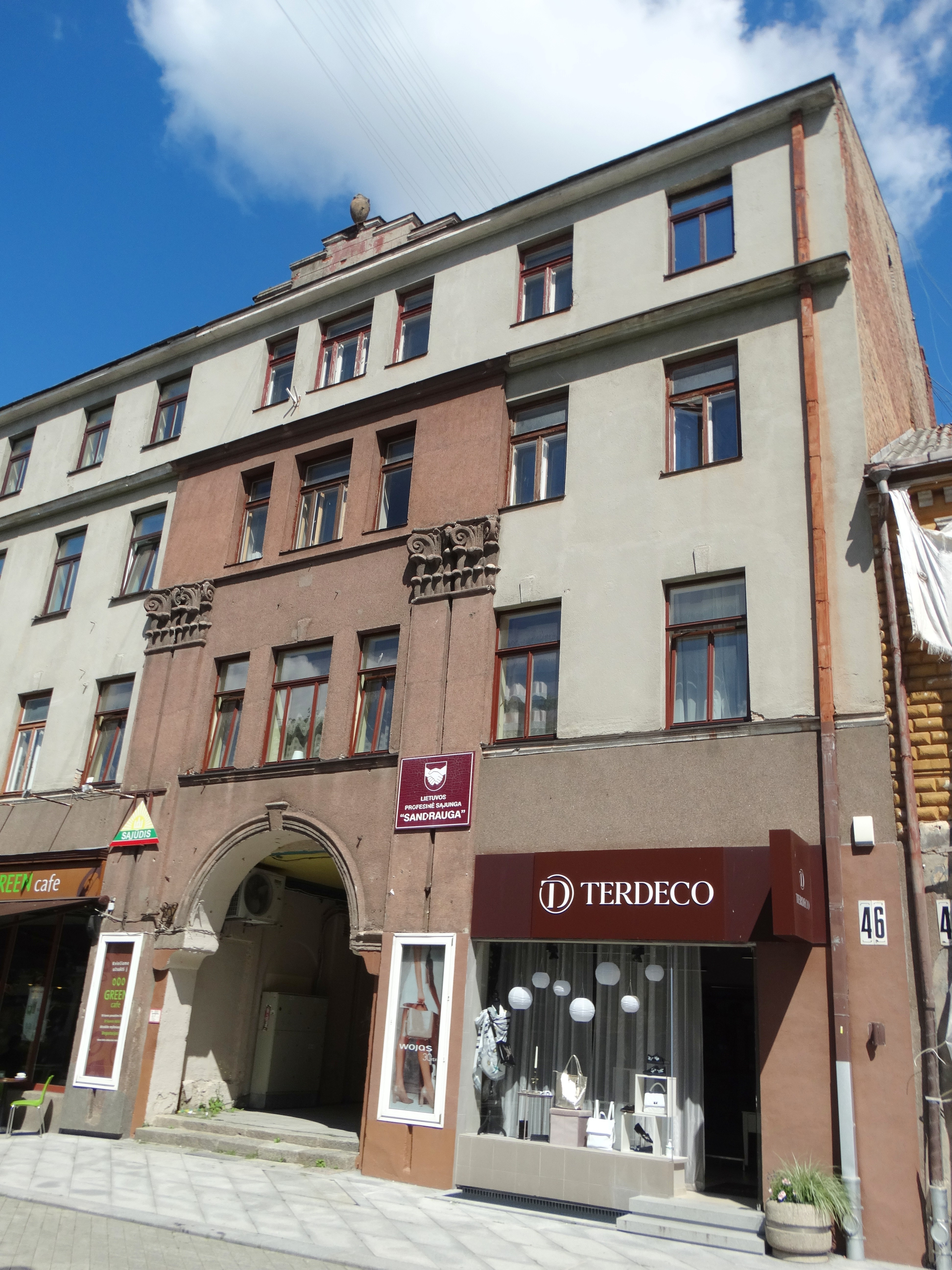 Laisvės 46, Kaunas, Lithuania